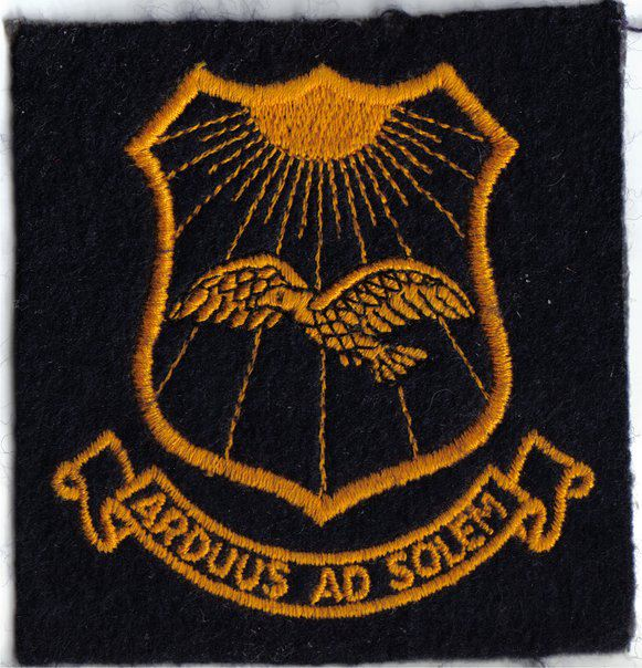 Blazer badge